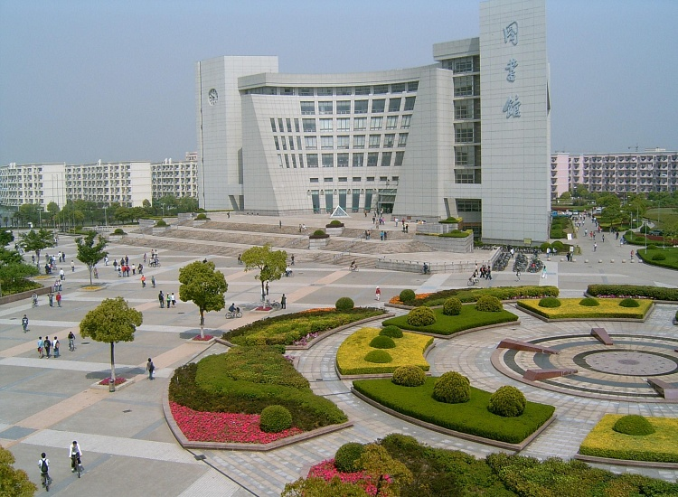 SHU library in_Baoshan